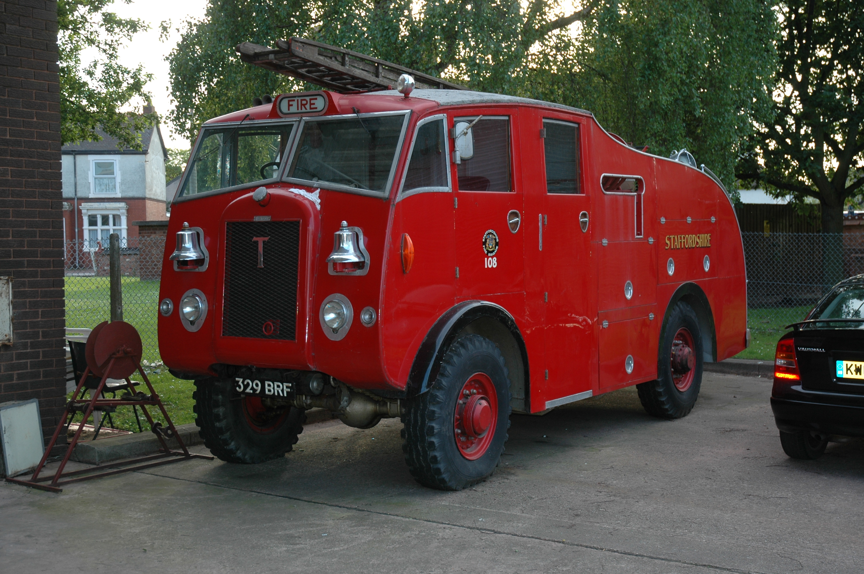 1954-registered Thorneycroft fire engine of Staffordshire Fire Brigade, photographed at Rugeley Fire Station in 2007